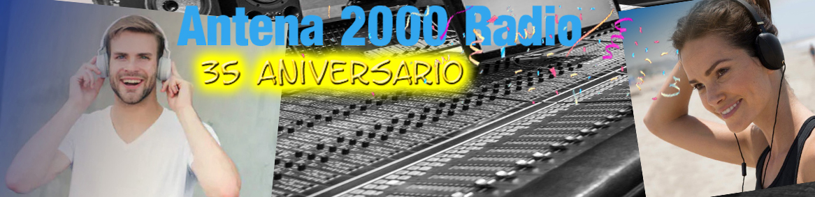 Antena 2000 Radio FM radio station in Barcelona, Spain celebrates its 35th Anniversary (1985-2020)